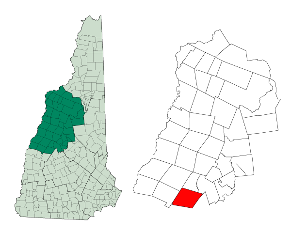 Map of a municipality in Belknap County, New Hampshire